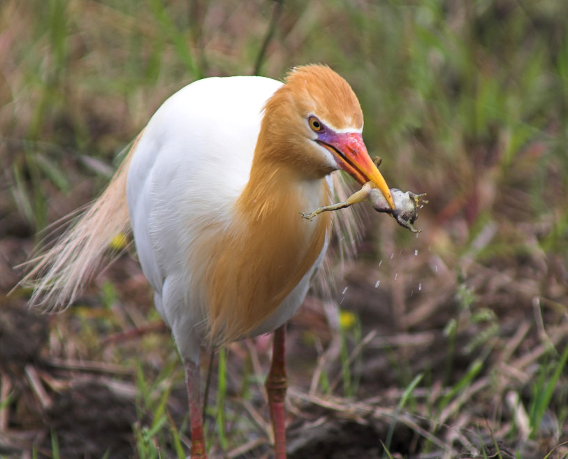 Eastern Cattle Egret (Bubulcus coromandus, Syn. Bubulcus ibis coromandus) with caught Treefrog (Hyla spec.); Japan.